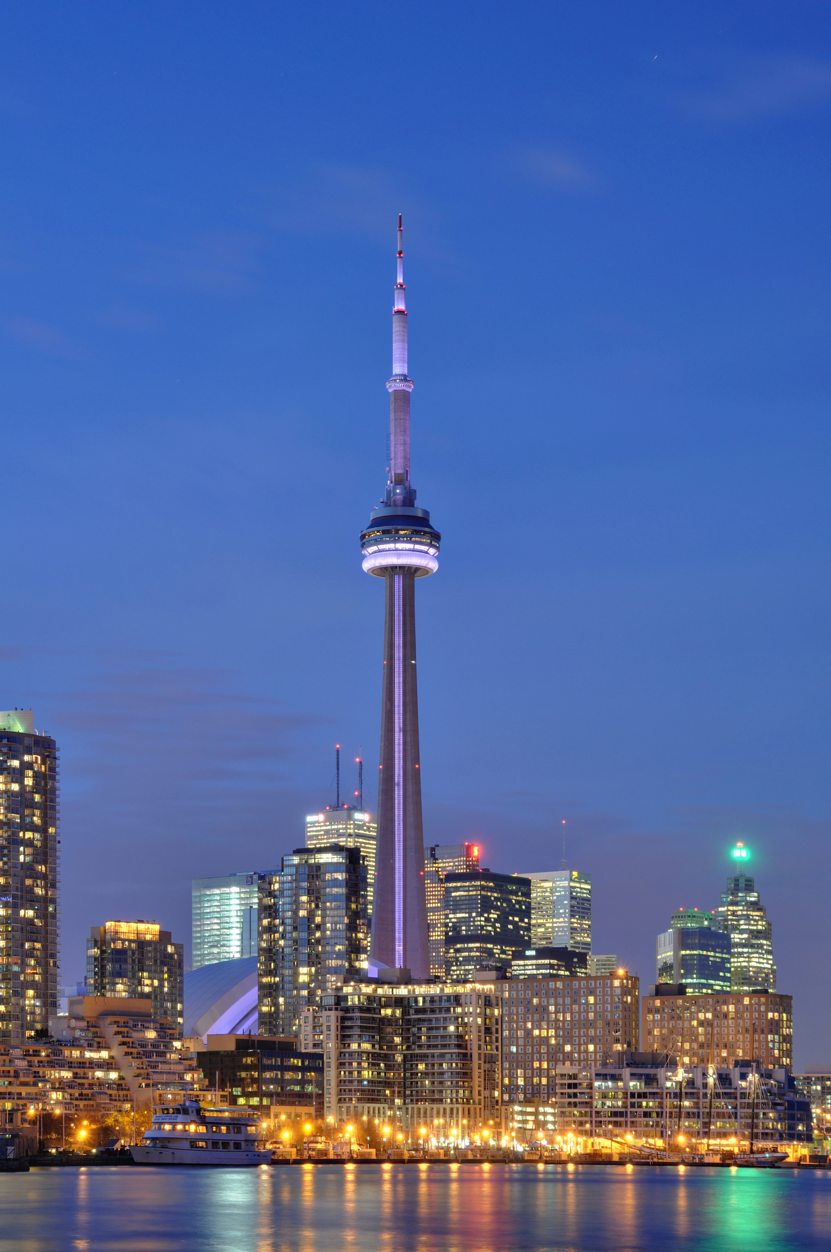 Illuminated CN Tower in Toronto at night.